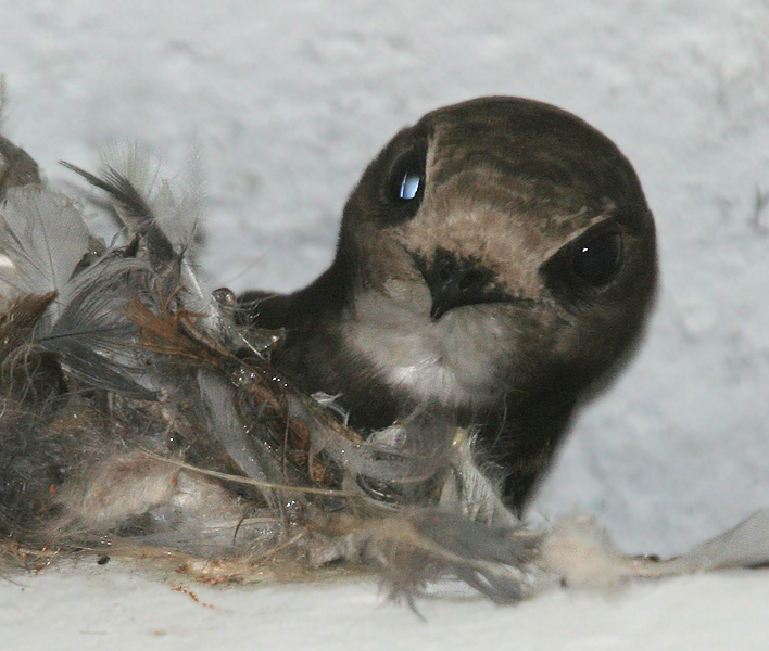 House Swift Apus affinis in Hyderabad , India.